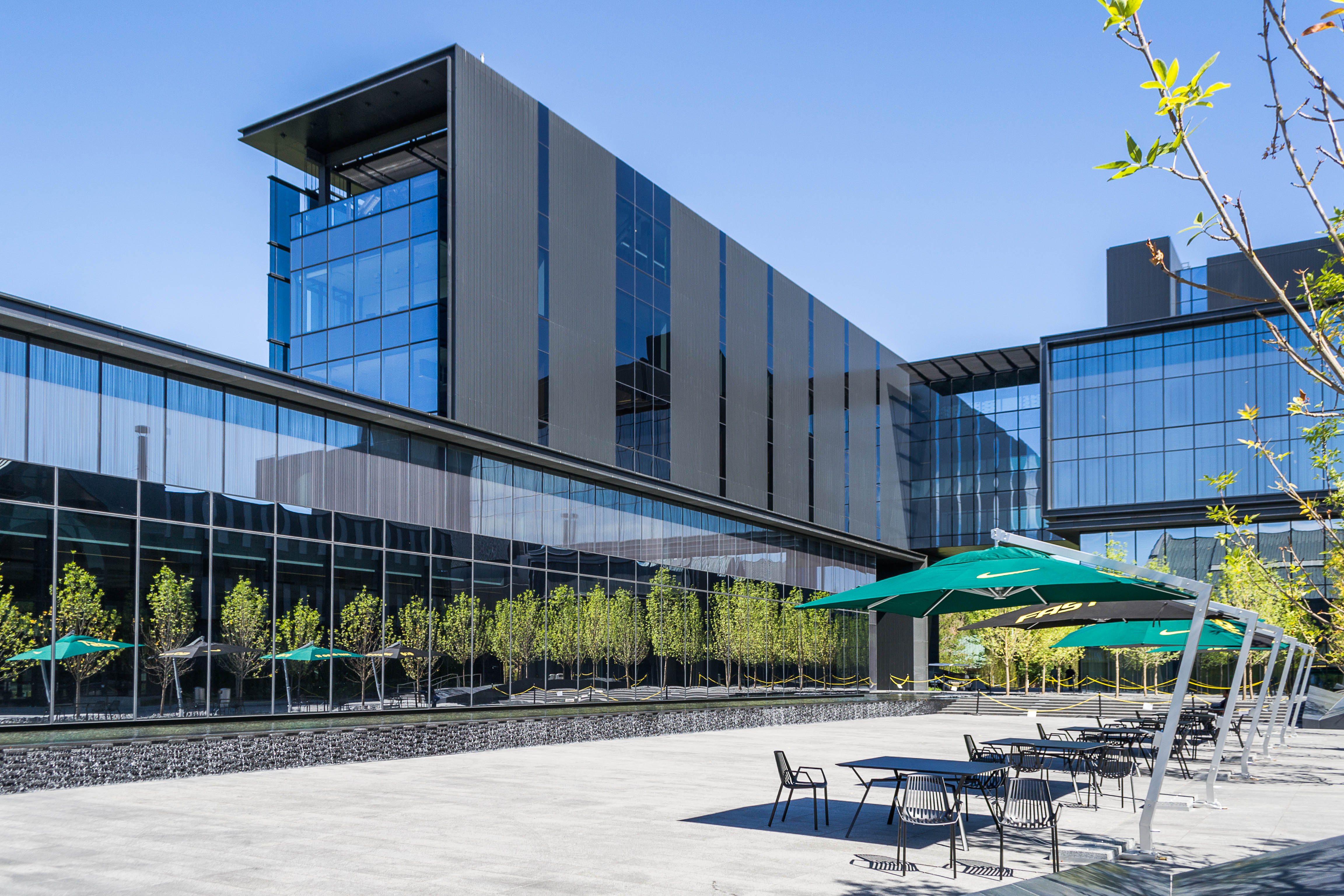 The Hatfield-Dowlin Complex near Autzen Stadium at the University of Oregon